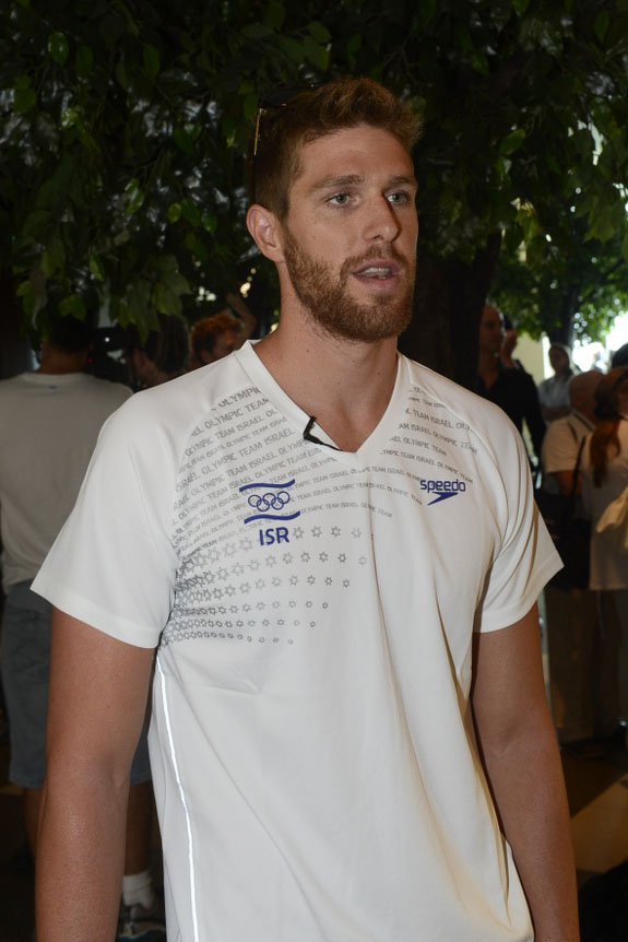 Nimrod Shapira Bar-Or, 2012